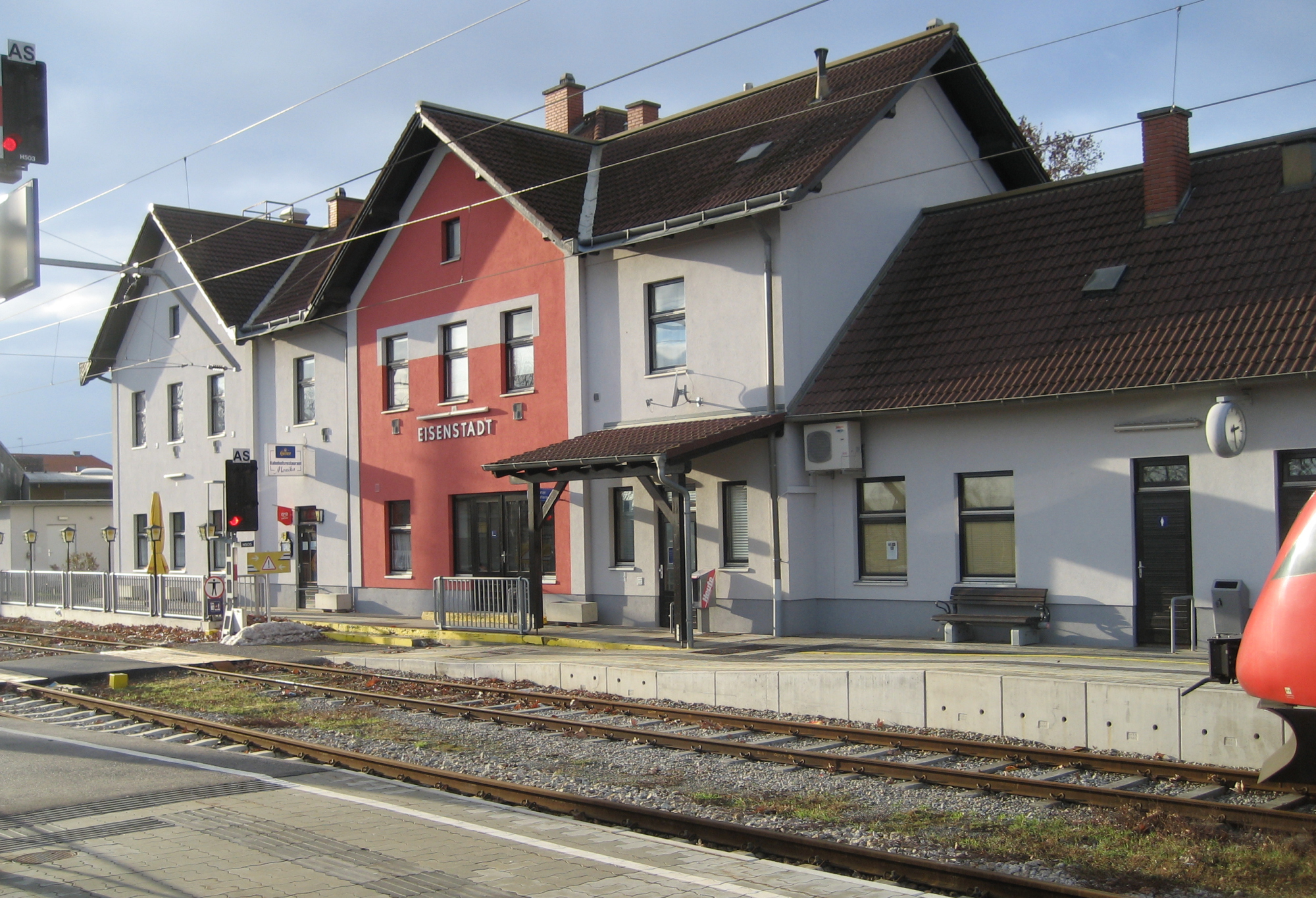 train station Eisenstadt in Burgenland